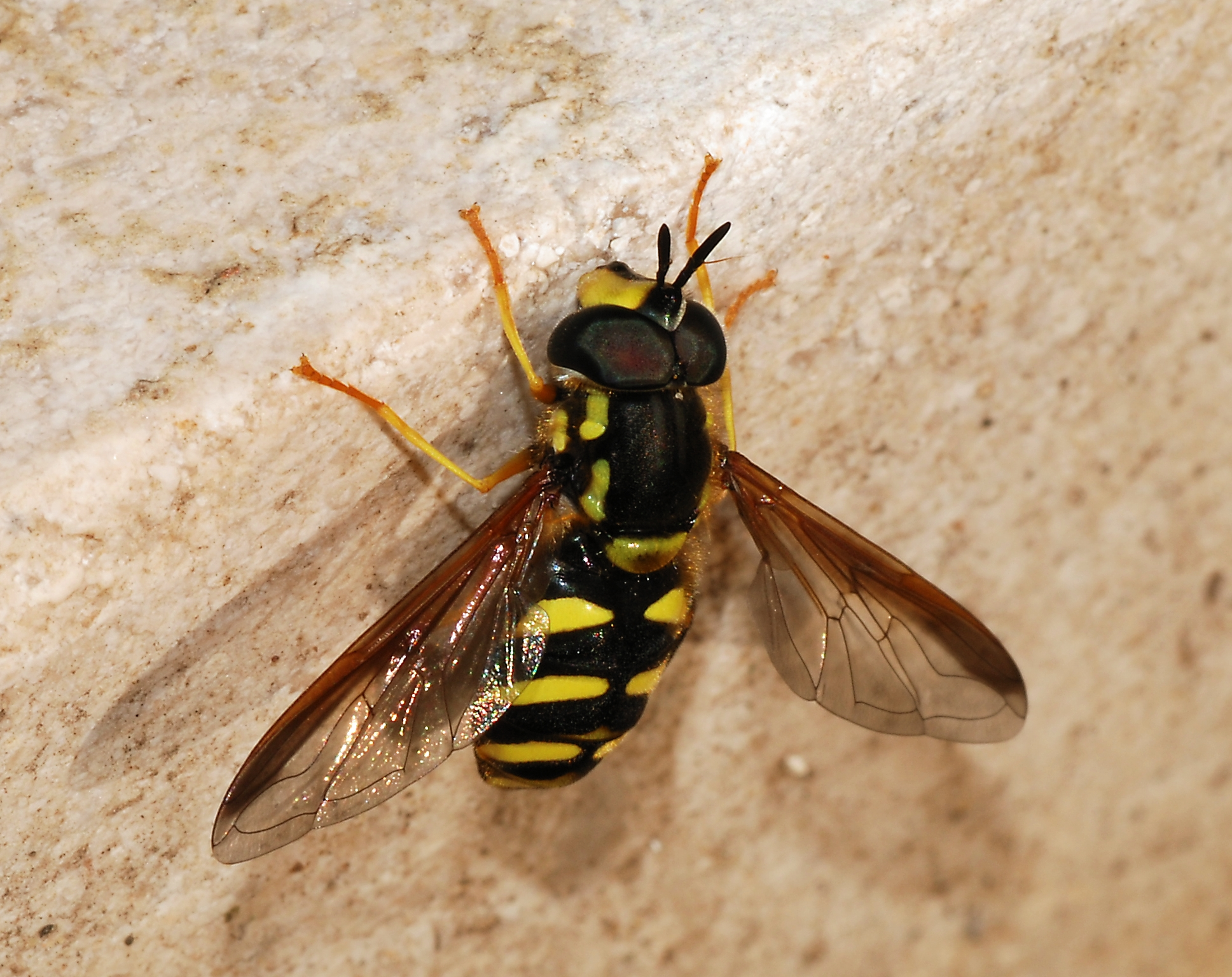 A male hoverfly (Chrysotoxum intermedium)